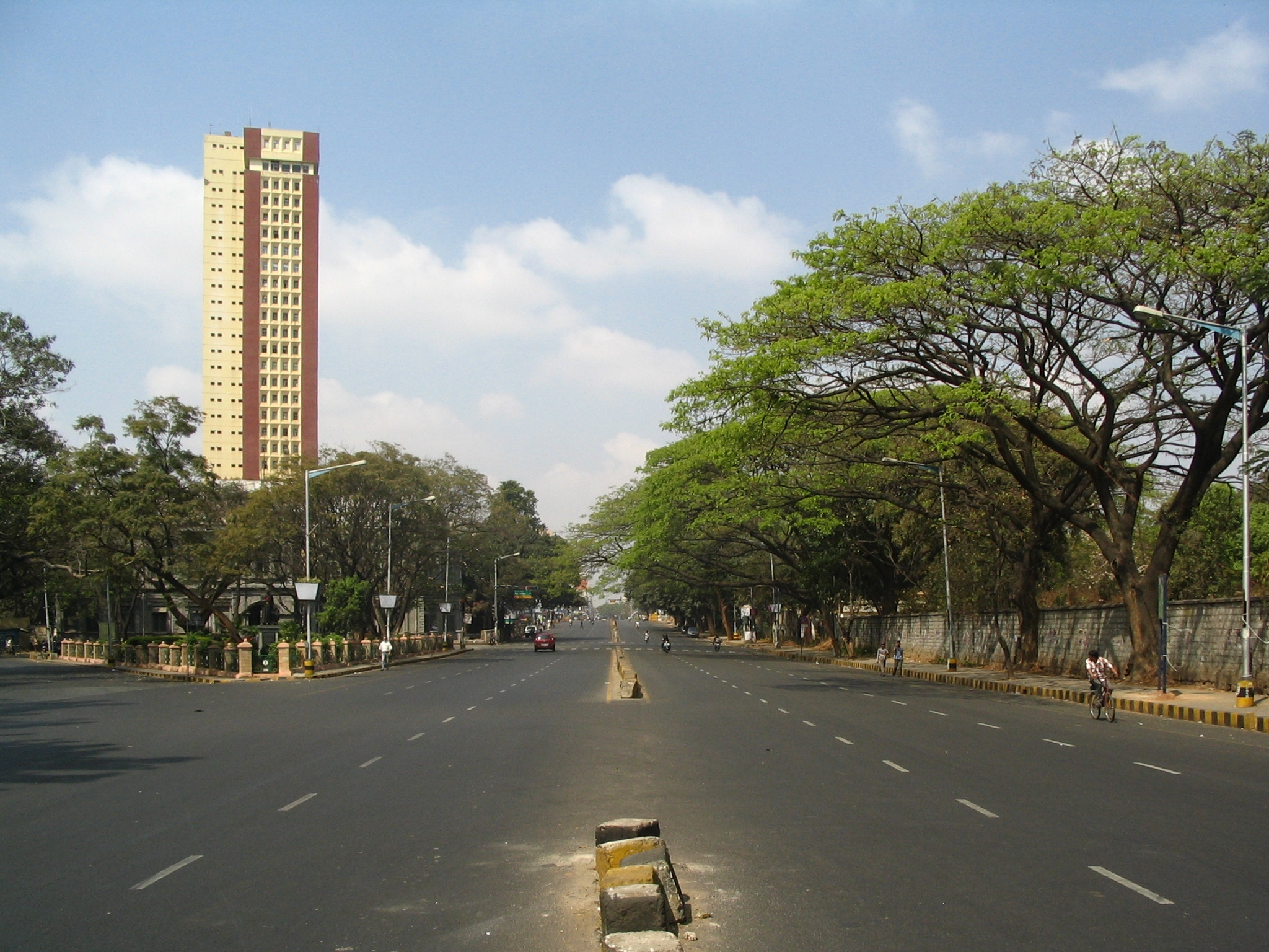 Mahatma Gandhi Road, Bangalore, with the public utility building